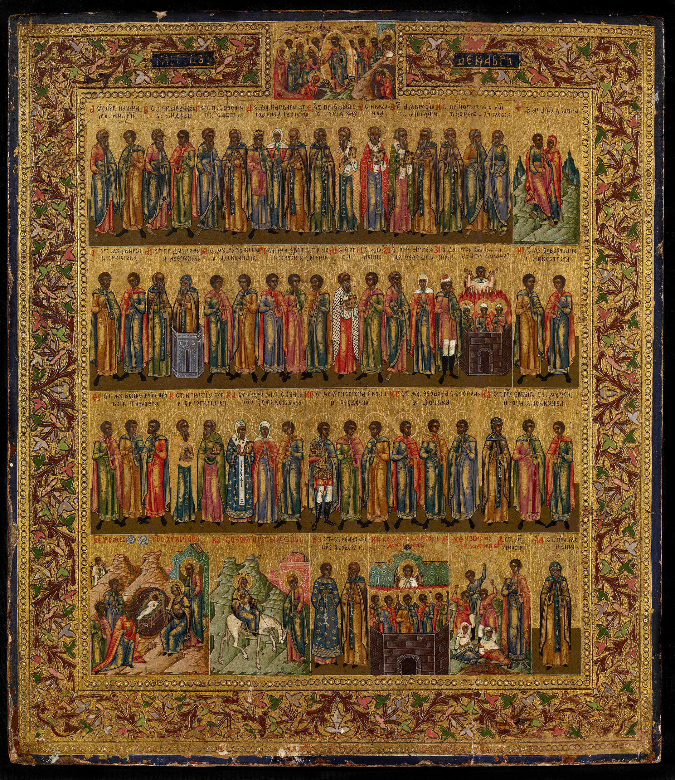 A CALENDAR ICON FOR DECEMBER